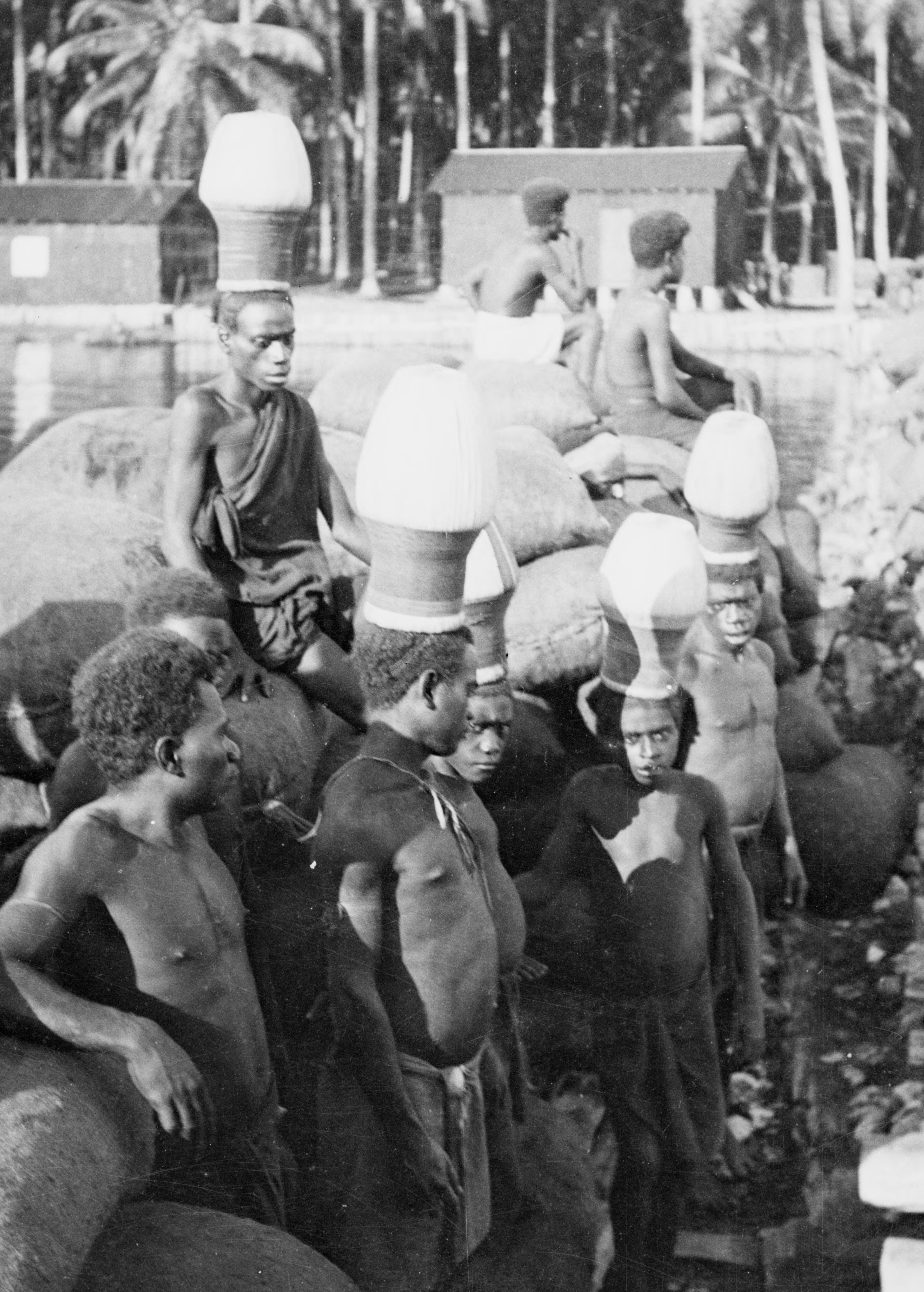 Five men wearing upe ceremonial headwear, Soraken, Bougainville Island